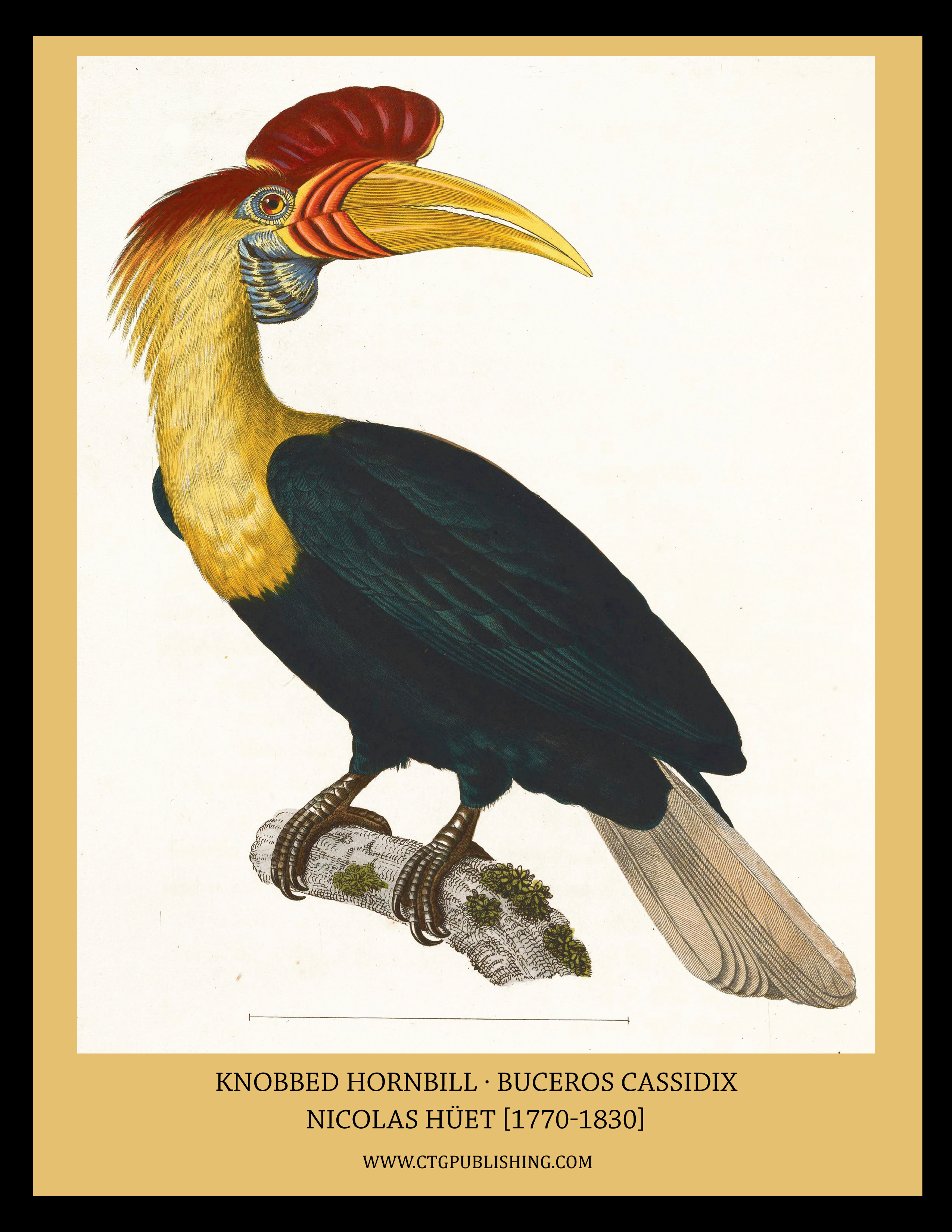 Plate showing Buceros cassidix Temminck, 1823, Sulawesi = Aceros cassidix (Knobbed Hornbill)